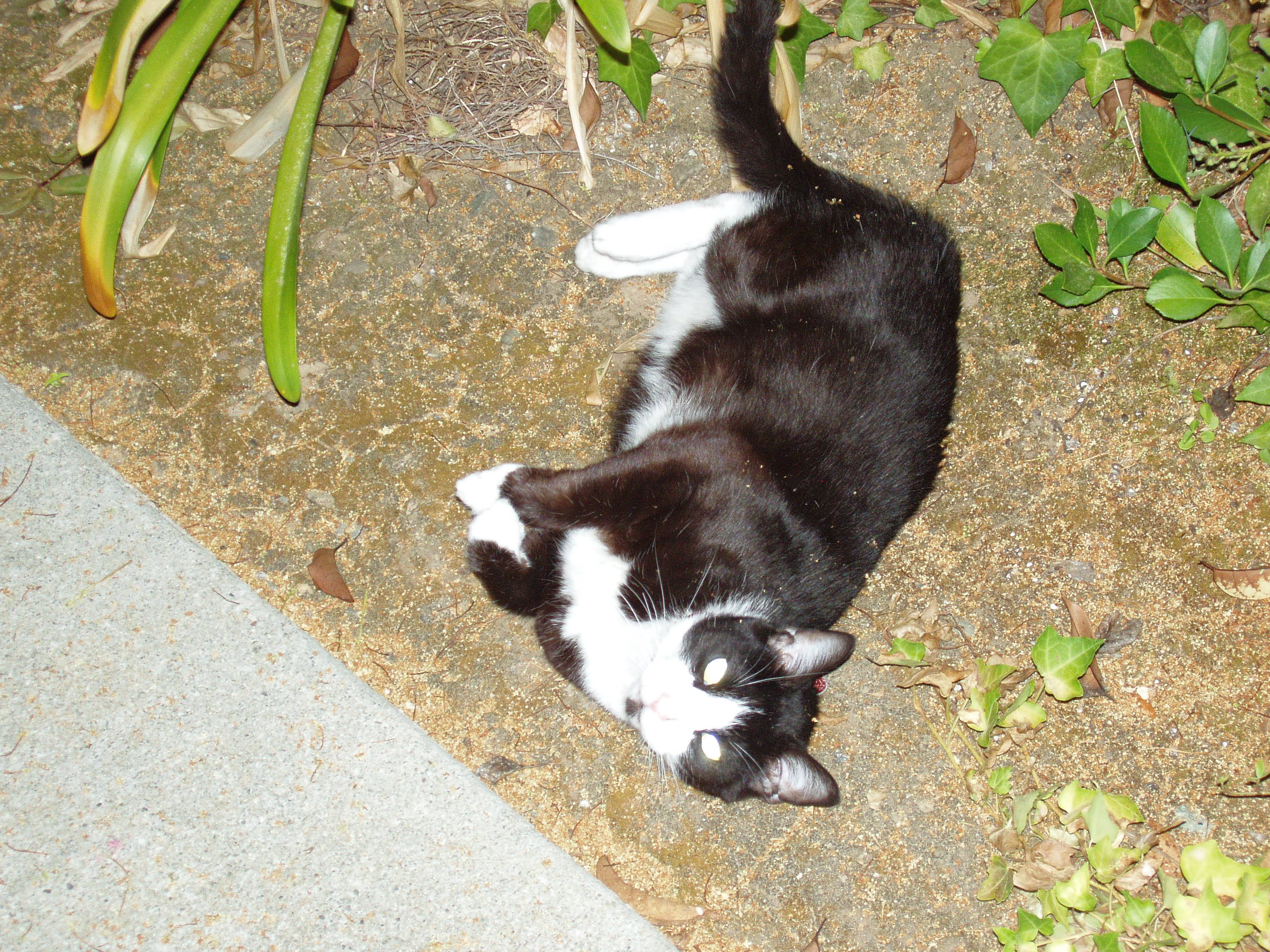 Cat at night with light reflecting off its retina. Note the intensity of the reflection due to the camera flash.